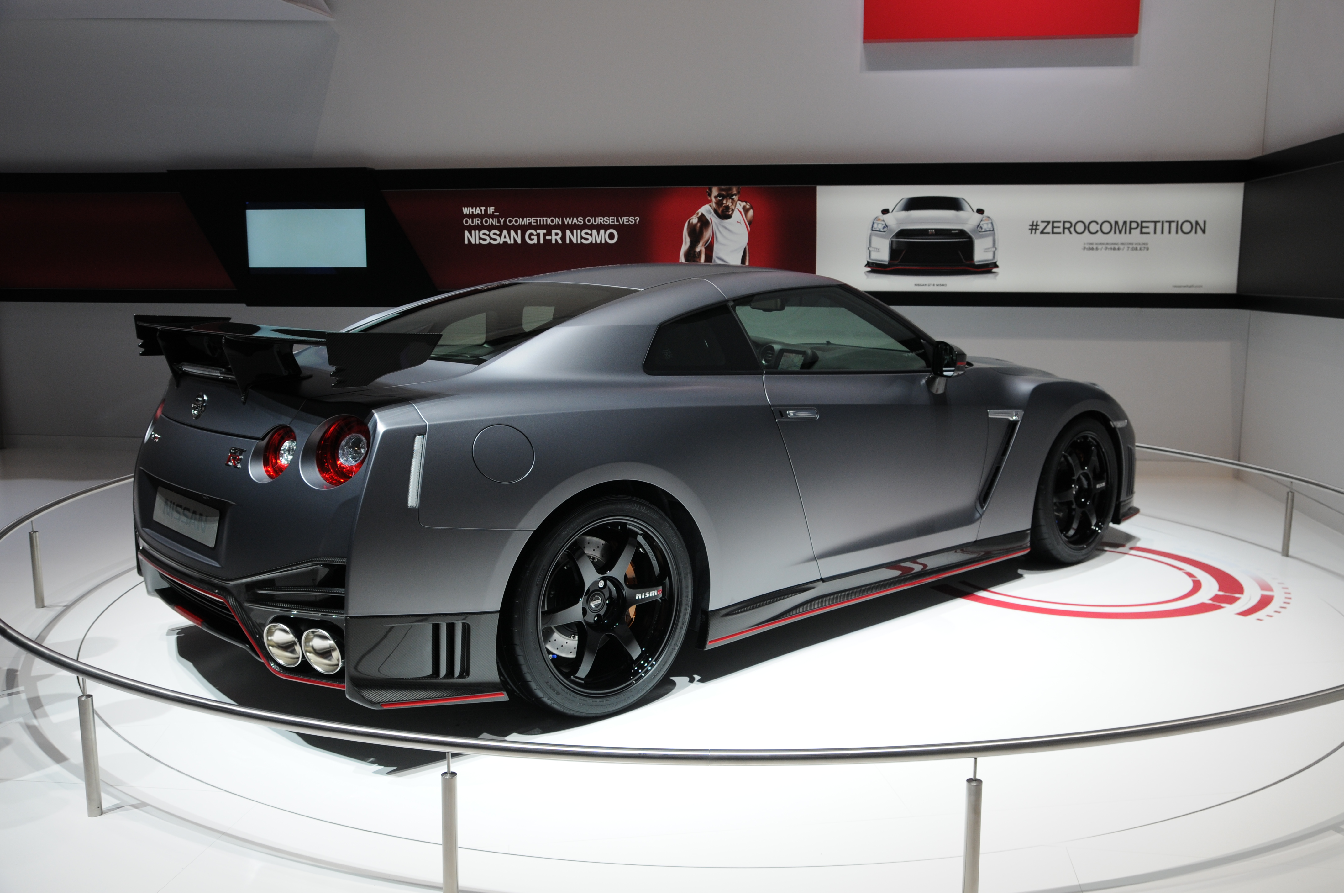 Geneva Motor Show 2014 (photo taken on the first press day)